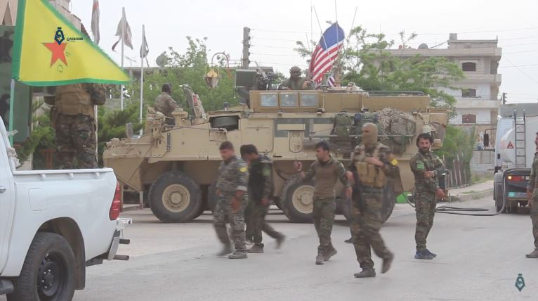 Hasakeh: US Armored Vehicles Spreading In Direk Town 1-5-2017